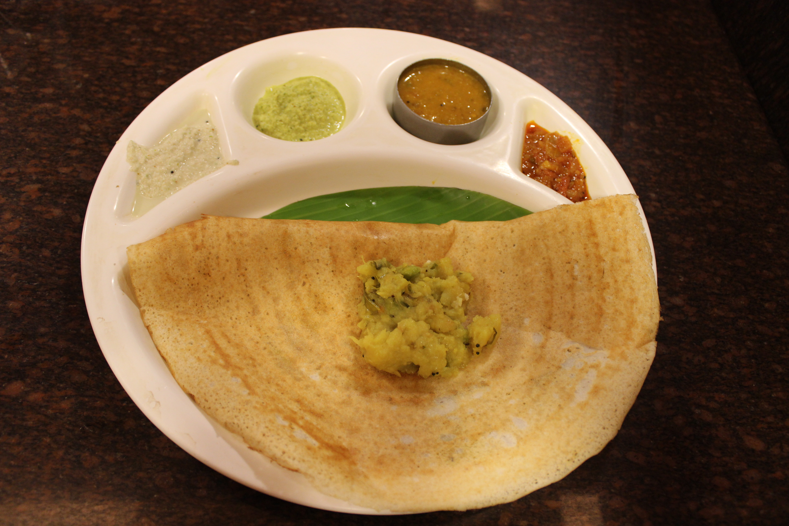 Masala Dosa as served in Tamil Nadu, India. Masala dosa was listed as one of the World's 50 most delicious foods compiled by CNN